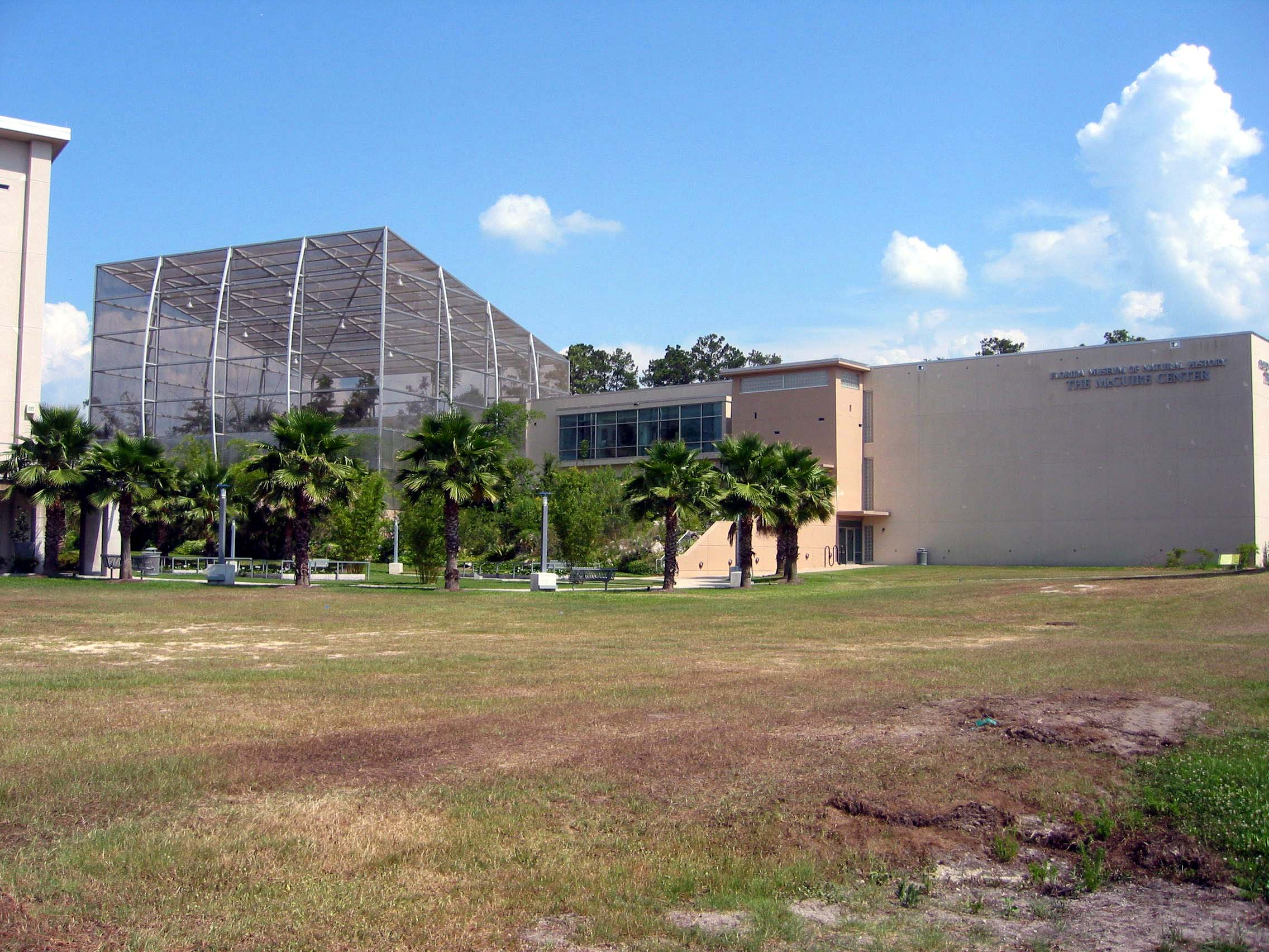 The outside of the Maguire Center for Biodiversity and Lepodoptra, Florida Museum of Natural History.